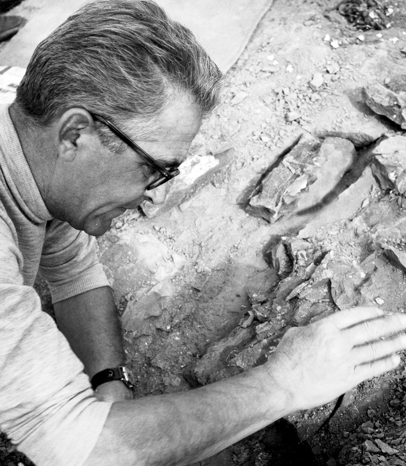 Vittorio Vialli working on a fossil